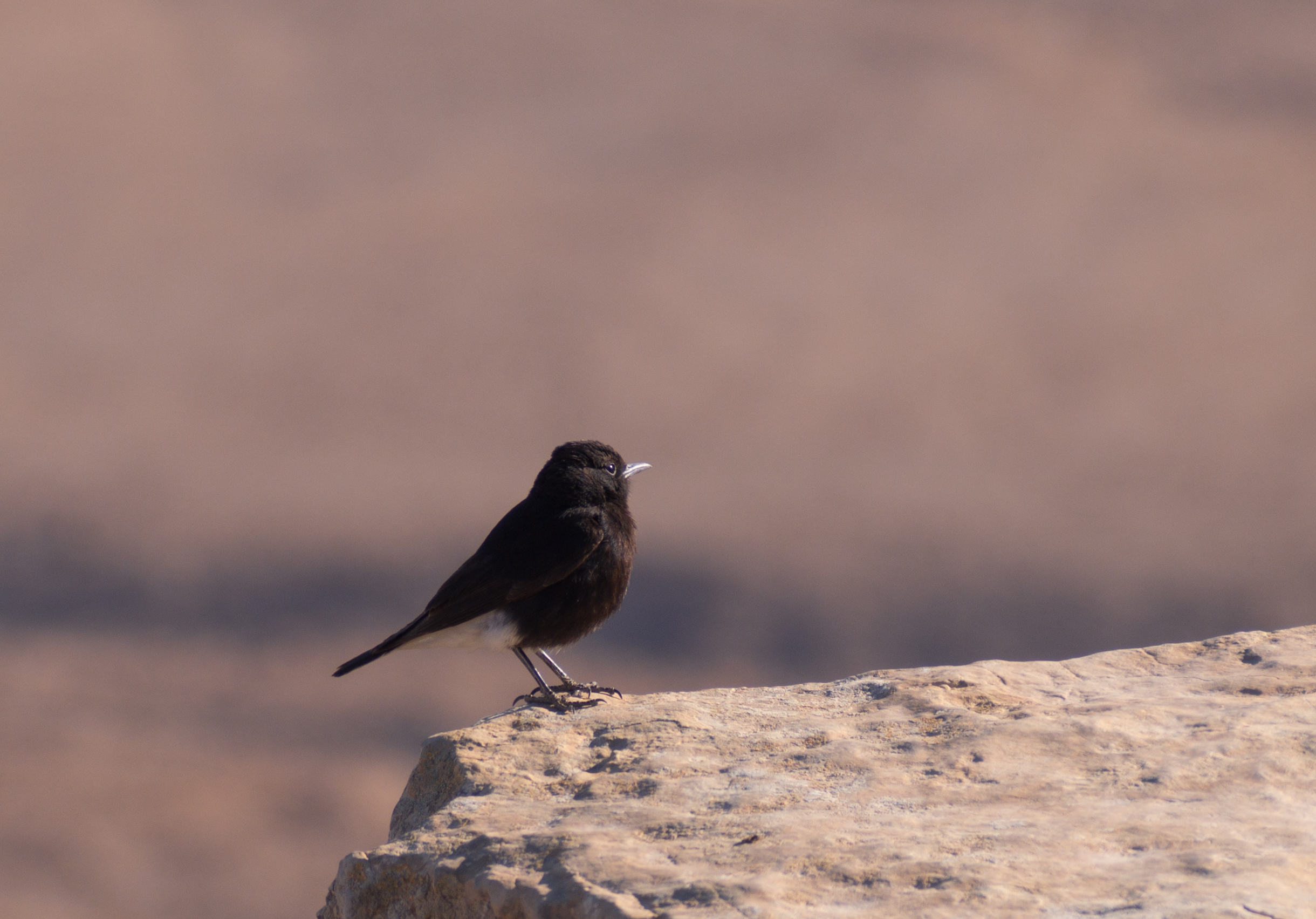 White-crowned wheatear (Oenanthe leucopyga) along a cliff of Makhtesh Ramon.